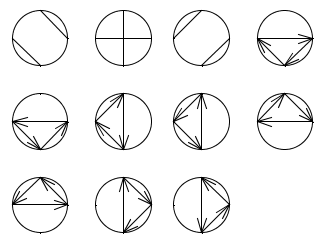 Stirling number of first kind s(4,2)=11